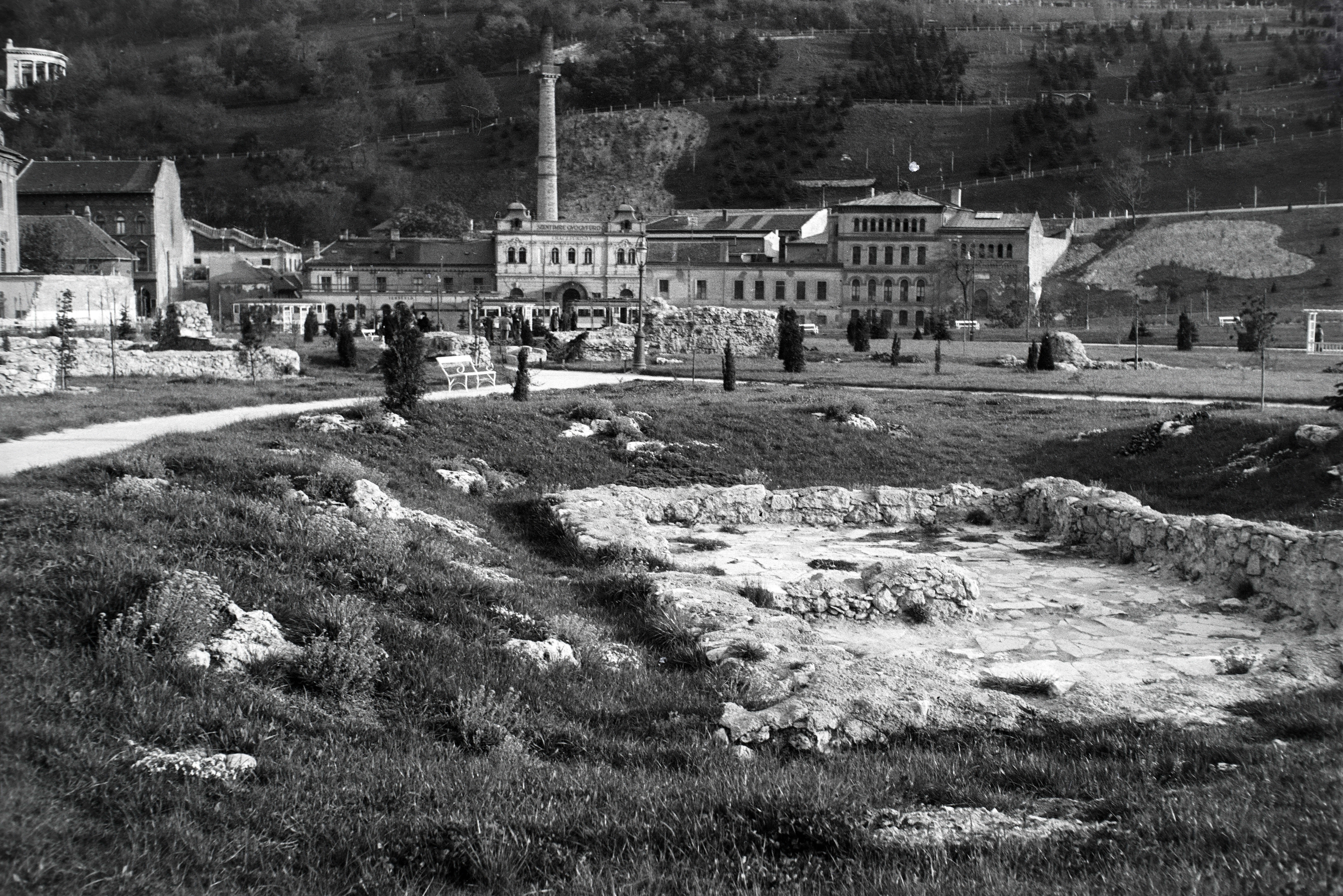 Medieval ruins in the Tabán Park in 1938 with Rác fürdő in the background. The ruins were discovered in 1936 after the demolition of the Tabán. Building no. VI (as named by archaeologist Sándor Garády; in the foreground) and no. II. (left) has since disappeared.